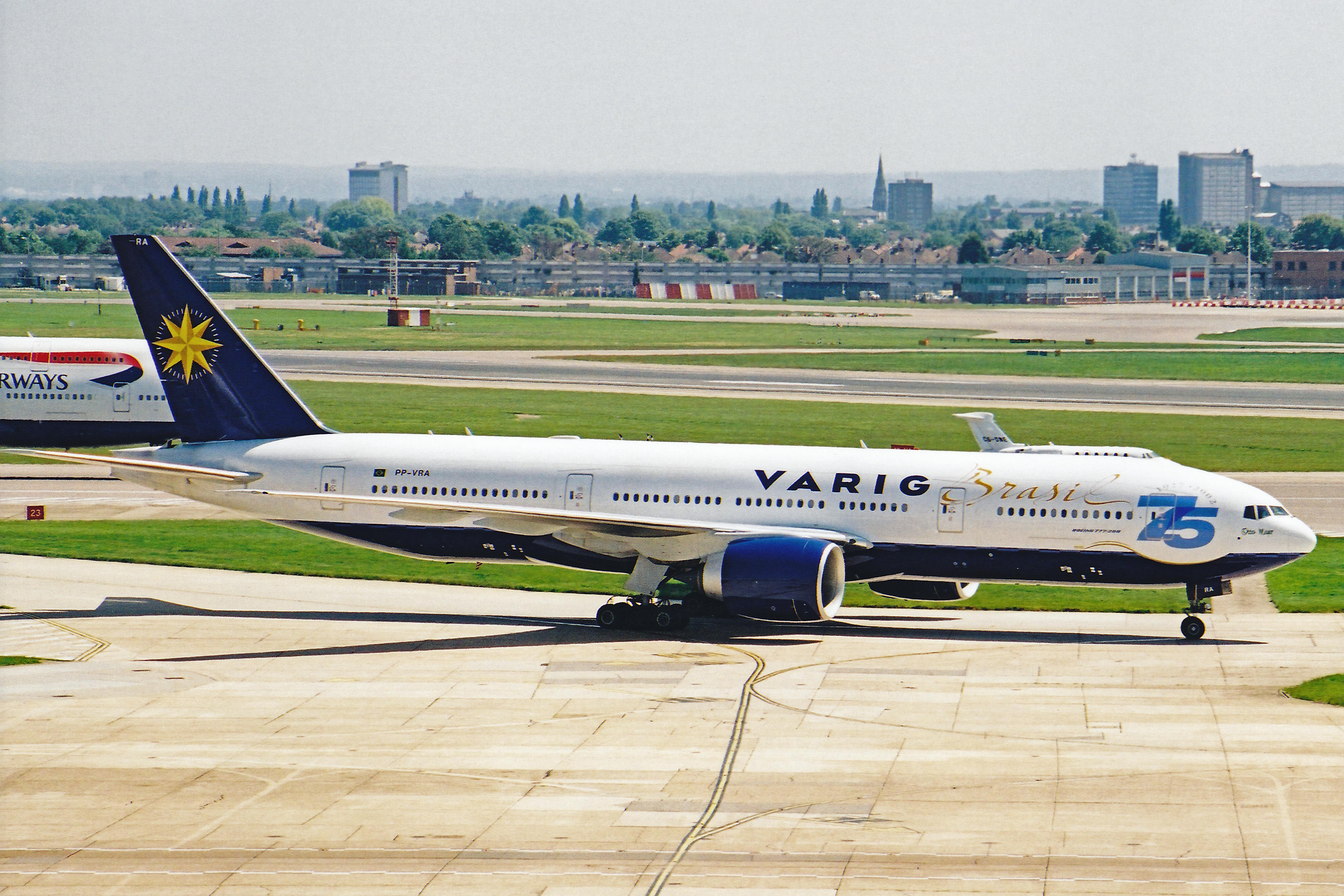 With additional '75 years' logo.